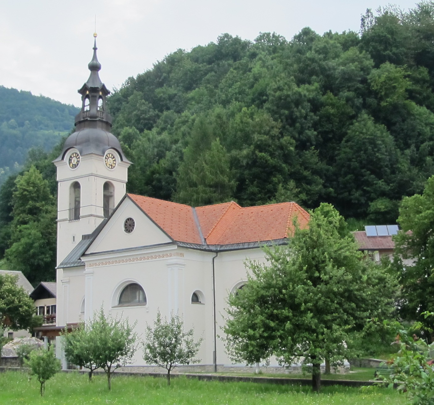 Saint Margaret's Church in Horjul, Slovenia